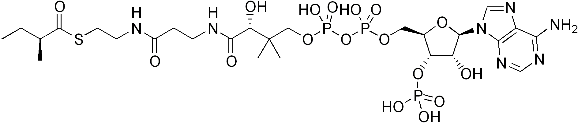 chemical structure of 2-Methylbutanoyl-CoA